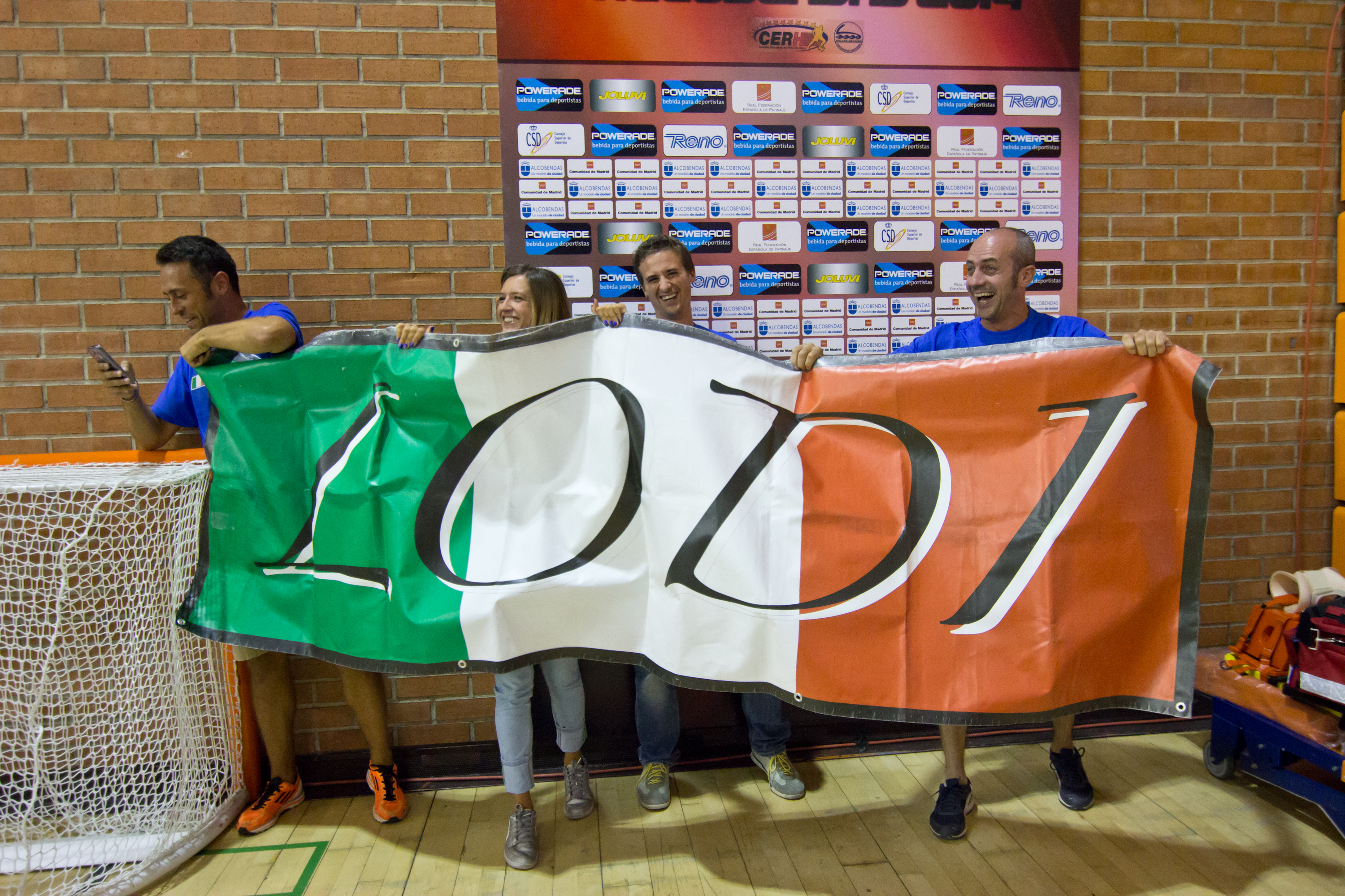 Italy national roller hockey team, winner at the 2014 CERH Championship in Alcobendas, Spain.